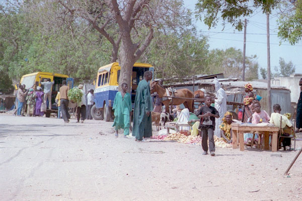 Street in Senegal.